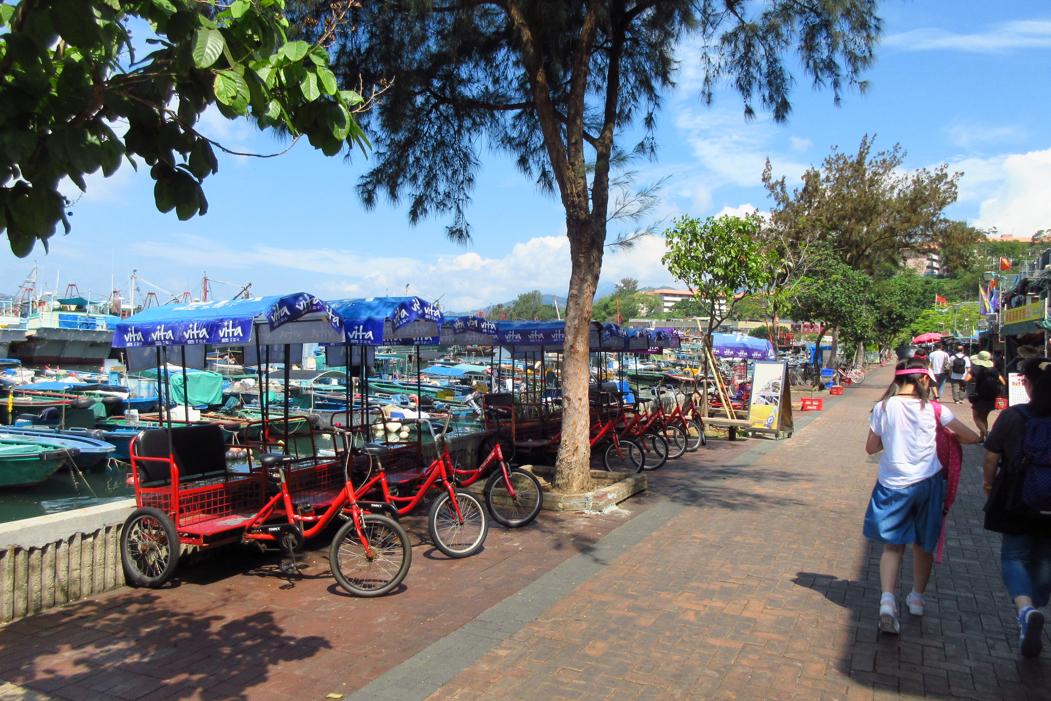 HK 長洲 Cheung Chau 北社海傍路 Pak She Praya Road 長洲避風塘 Typhoon Shelter in May 2018